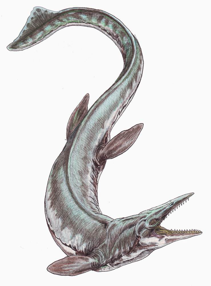 Tylosaurus proriger with tail fluke.